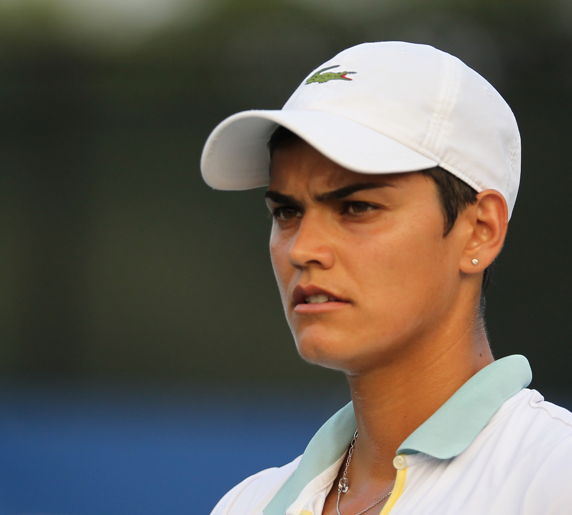 Citi Open Tennis July 29, 2011